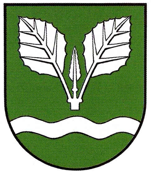 Coat of Arms of Grafhorst